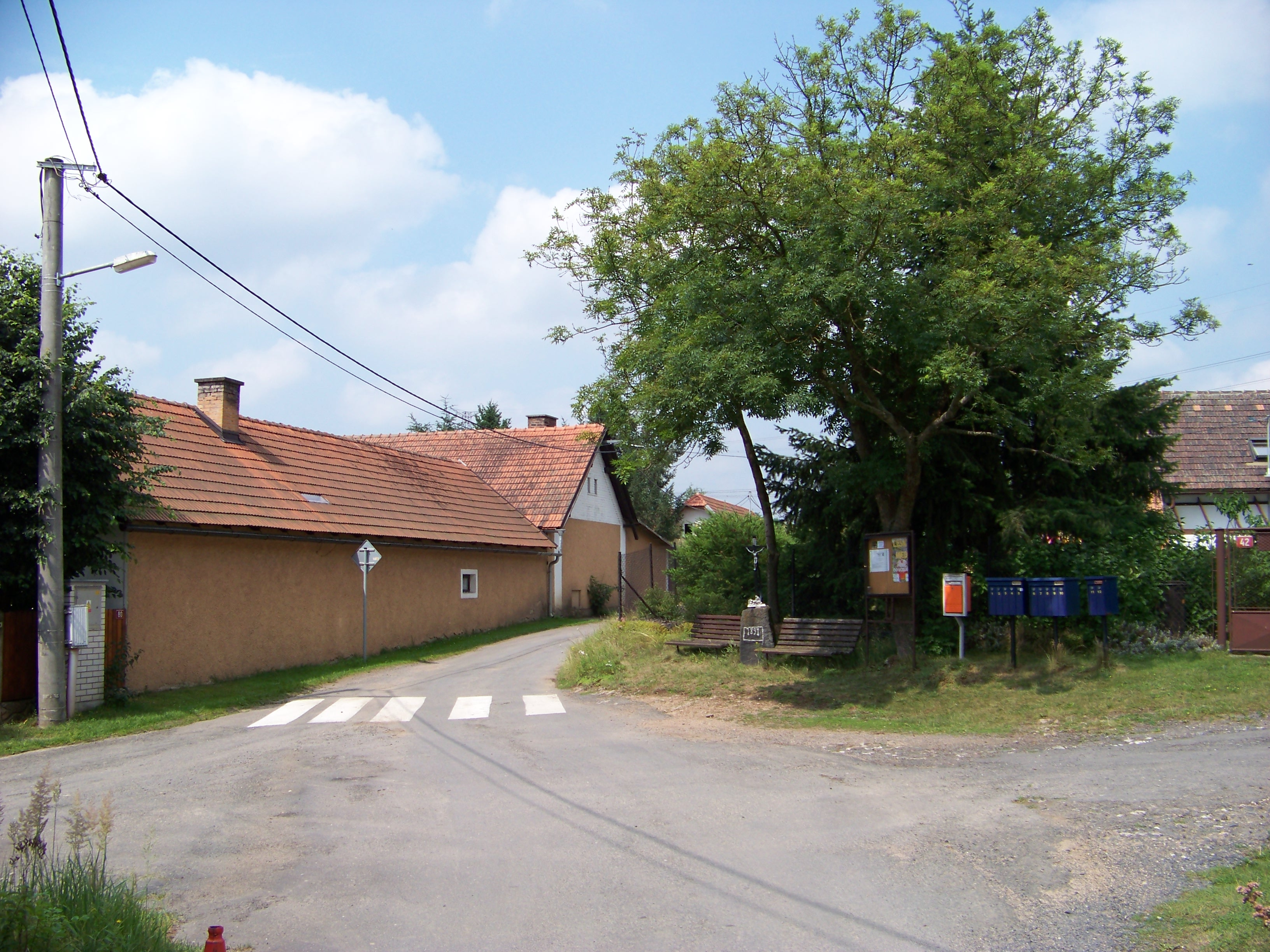 Smolotely-Dalskabáty, Příbram District, Central Bohemian Region, the Czech Republic.